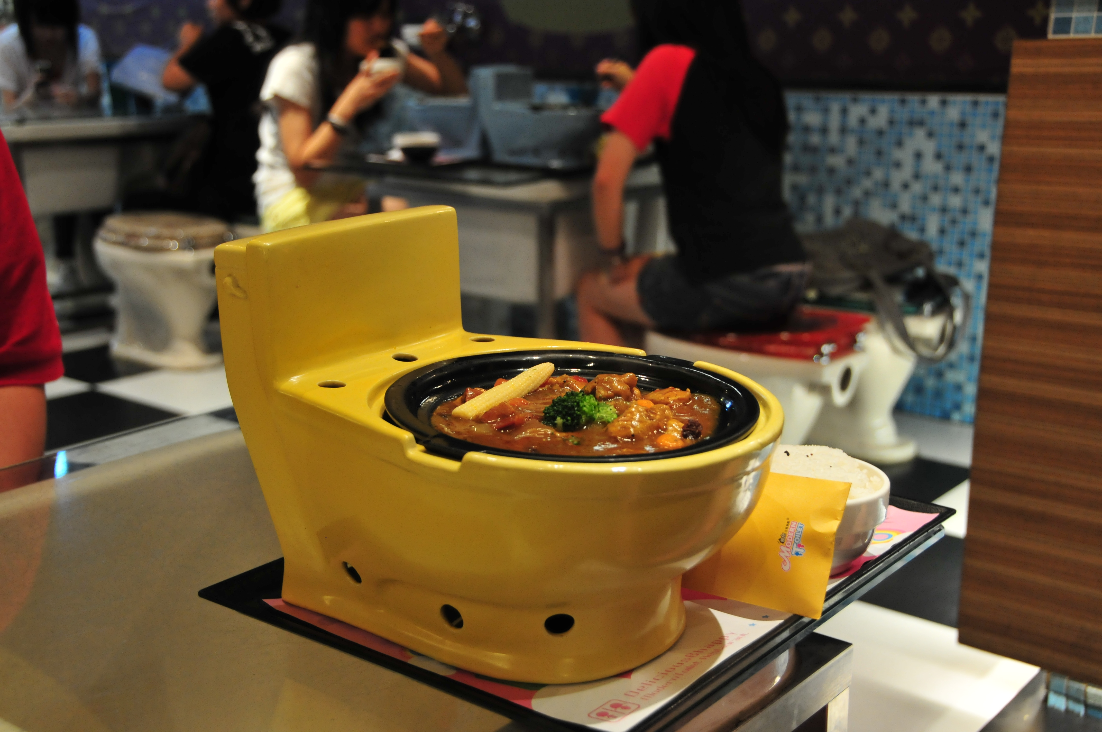 Food as served in bathroom themed Taipei Shilin Store, Modern Toilet Restaurant.